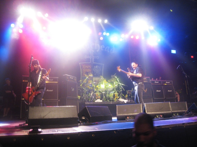 Motorhead Playing the Electric Factory in Philadelphia